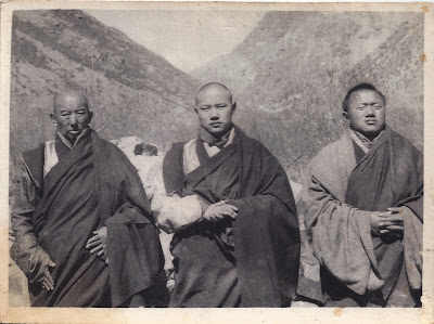 Karmapa flanked on his right by the 11th Situ pa and to his left the 6th Ponlop Rinpoche